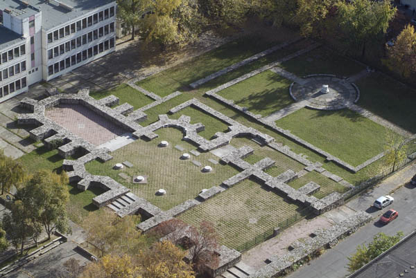 Óbuda, Clarissa convent, Budapest, Hungary, aerial photography